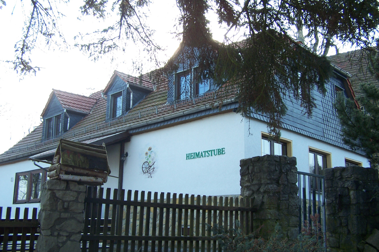 The old schoolhouse.